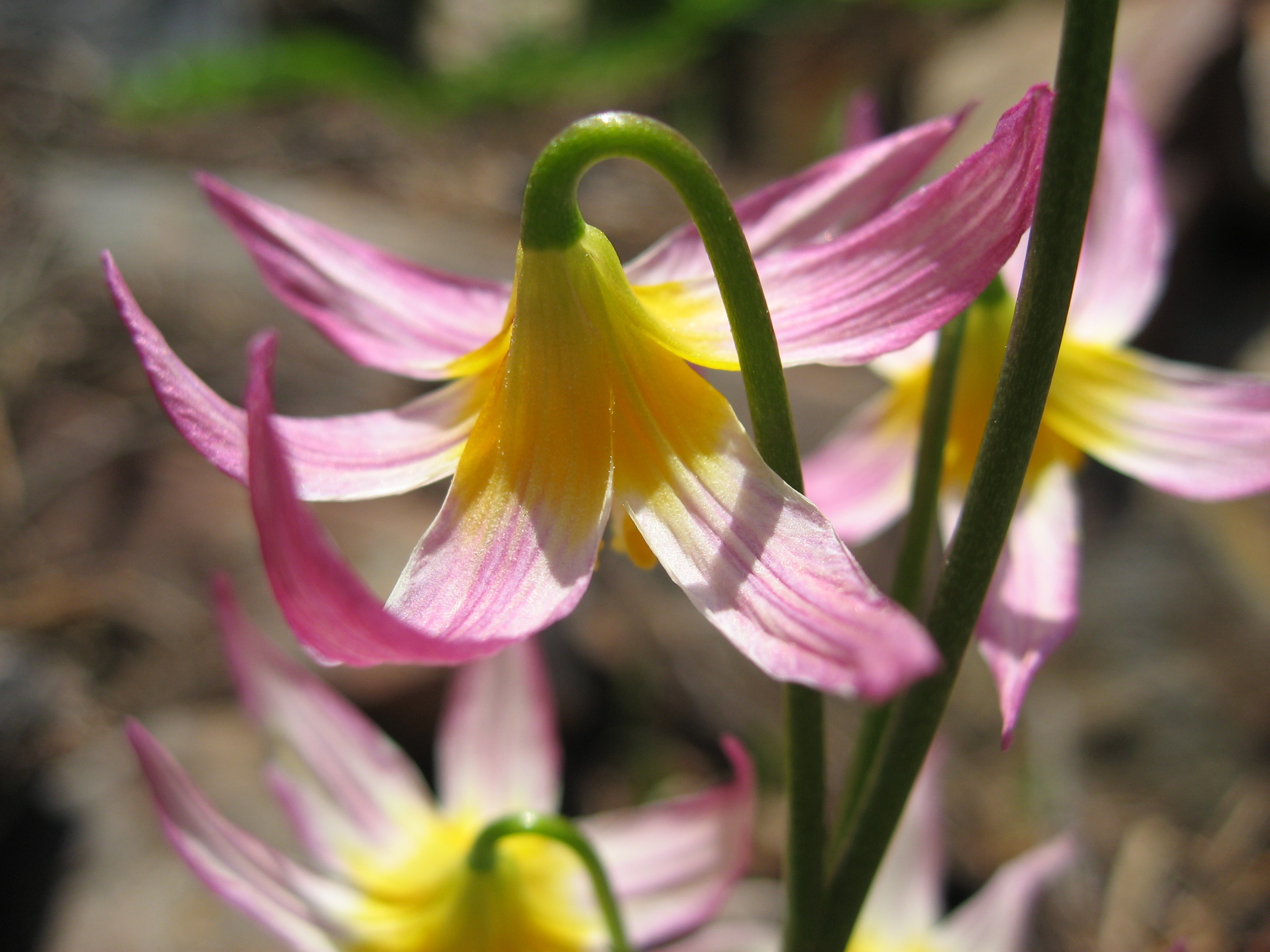 Erythronium purpurascens — Sierra Nevada fawn lily, older flower Identified by Inzilbeth. For more information, check out wiki's page on this Erythronium purpurascens.